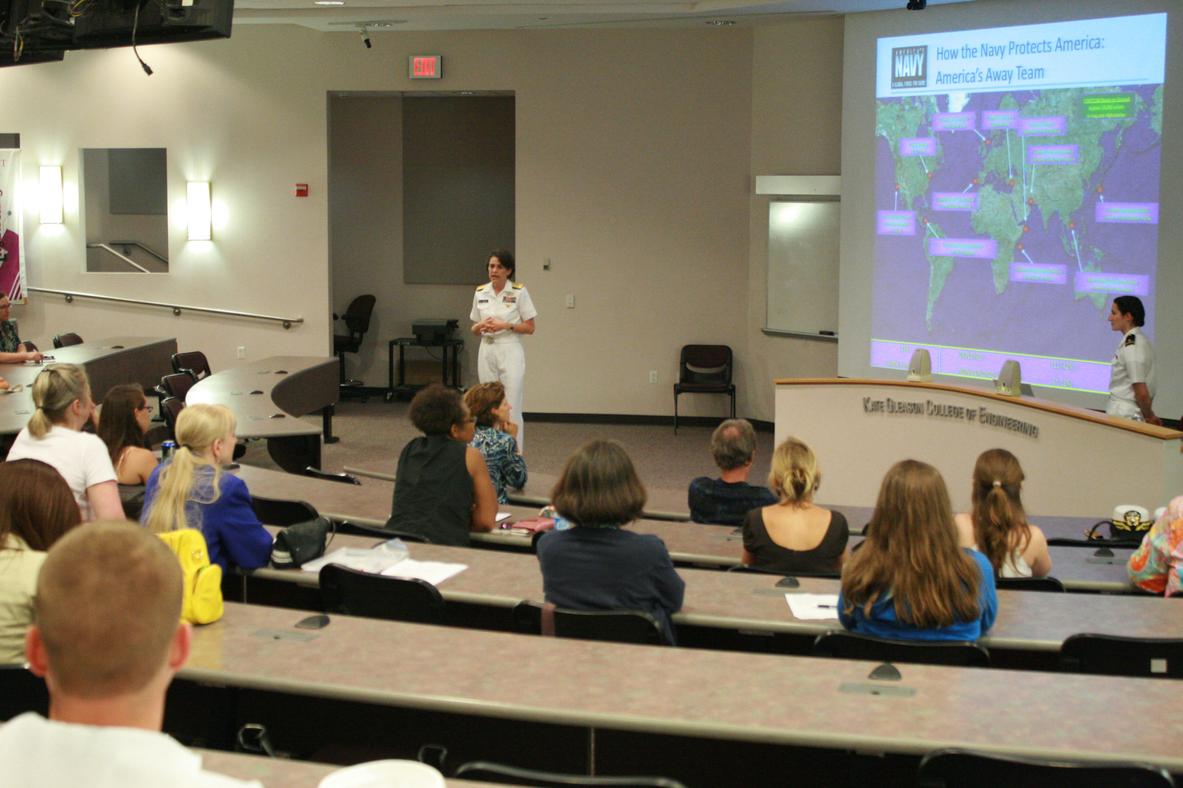 ROCHESTER, N.Y. (July 13, 2011) Rear Adm. Gretchen S. Herbert, commander of Navy Cyber Forces, speaks with young women at an event sponsored by the Society of Women Engineers at RIT Xerox Auditorium as part of Rochester Navy Week, one of 21 Navy Weeks planned across America for 2011. Navy Weeks are designed to showcase the investment Americans have made in their Navy as global force for good and increase awareness in cities that do not have a significant Navy presence. (U.S. Navy photo by Mass Communication Specialist 1st Class Katrina Sartain/Released)